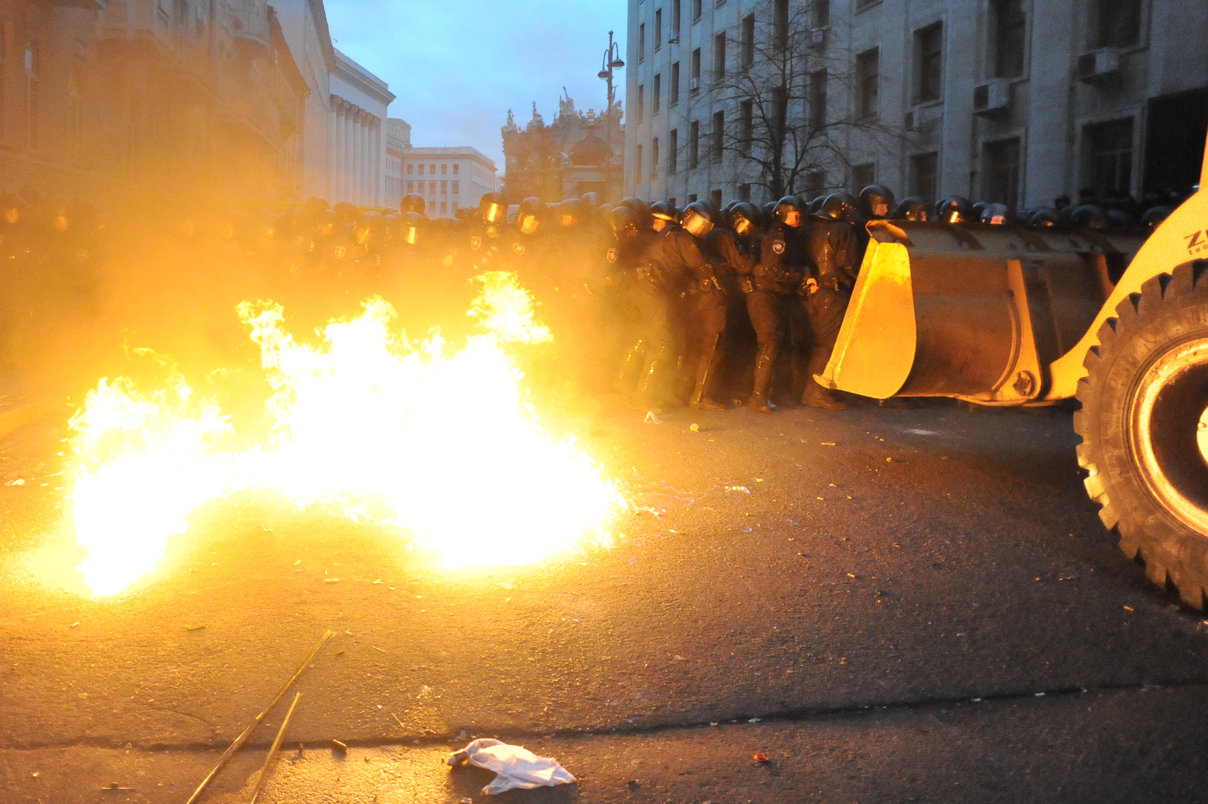 Riot police (Berkut), defending the Kiev city council building, and protesters clash at Bankova str, Kiev, Ukraine. December 1, 2013.